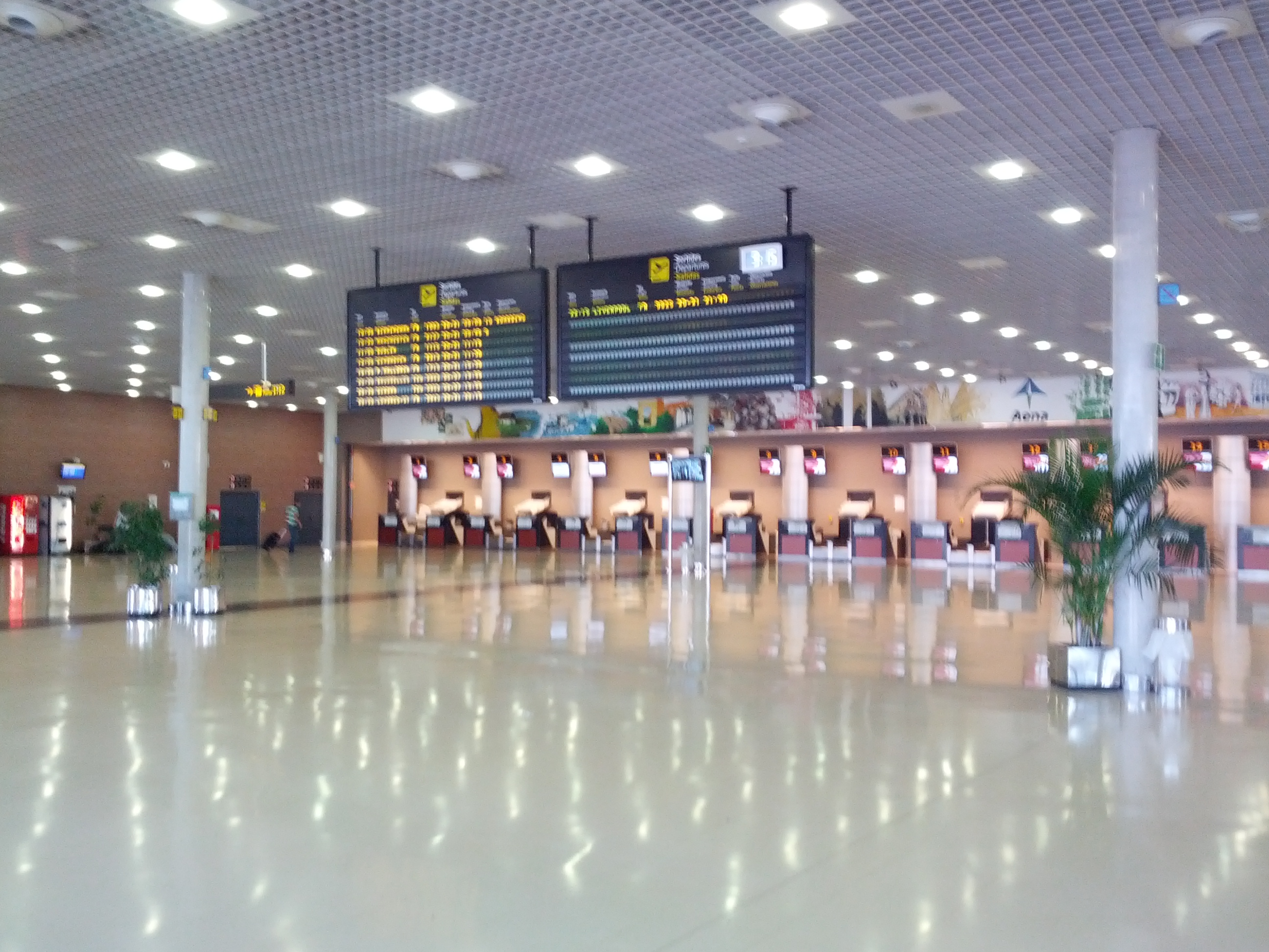 Reus Airport departure area.